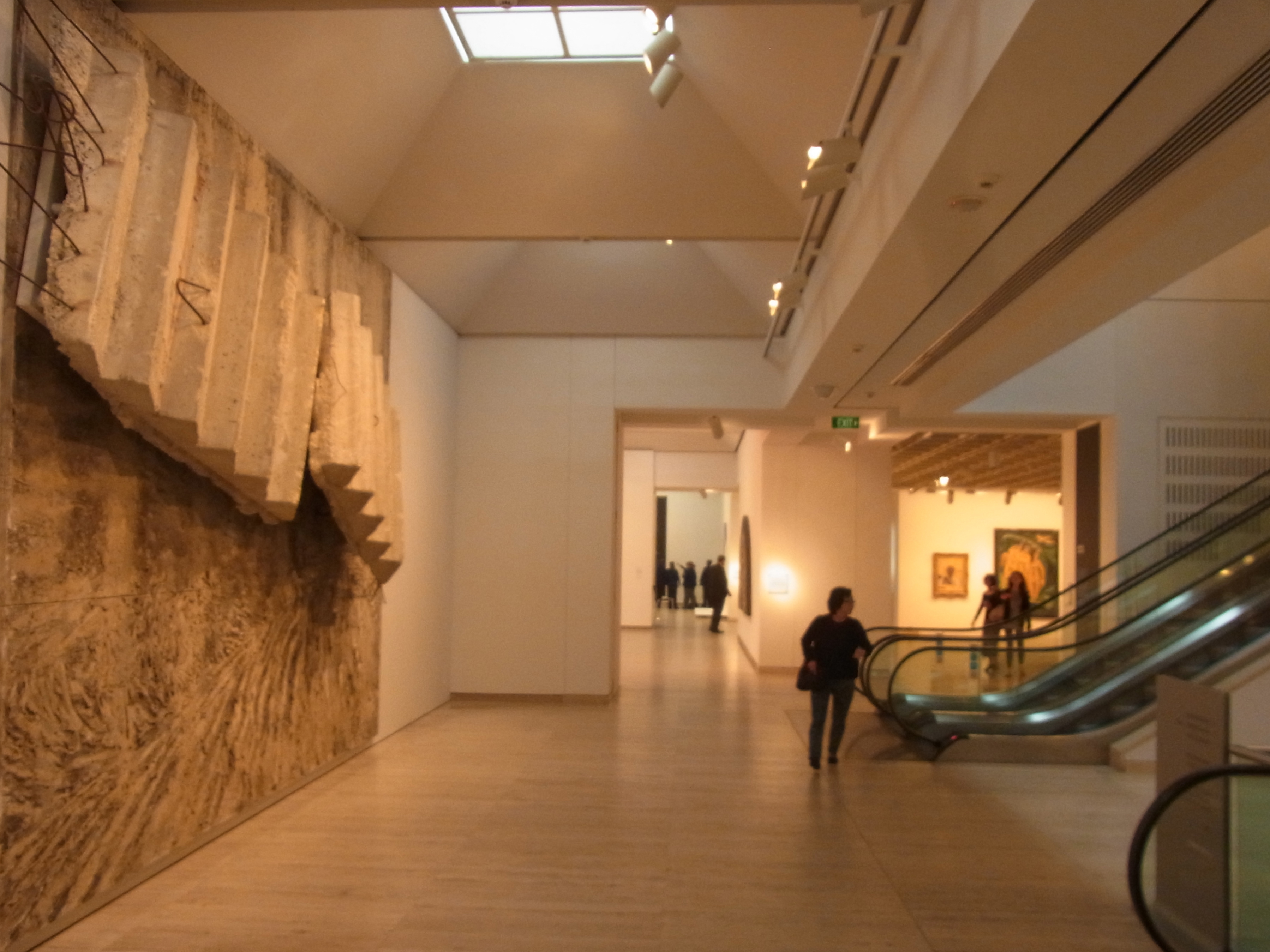 AGNSW Sydney, Bicentennial wing-contemporary art. (built 1988)